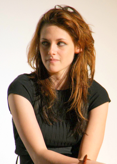 Actress Kristen Stewart From (The Twilight Saga) in October 2008.